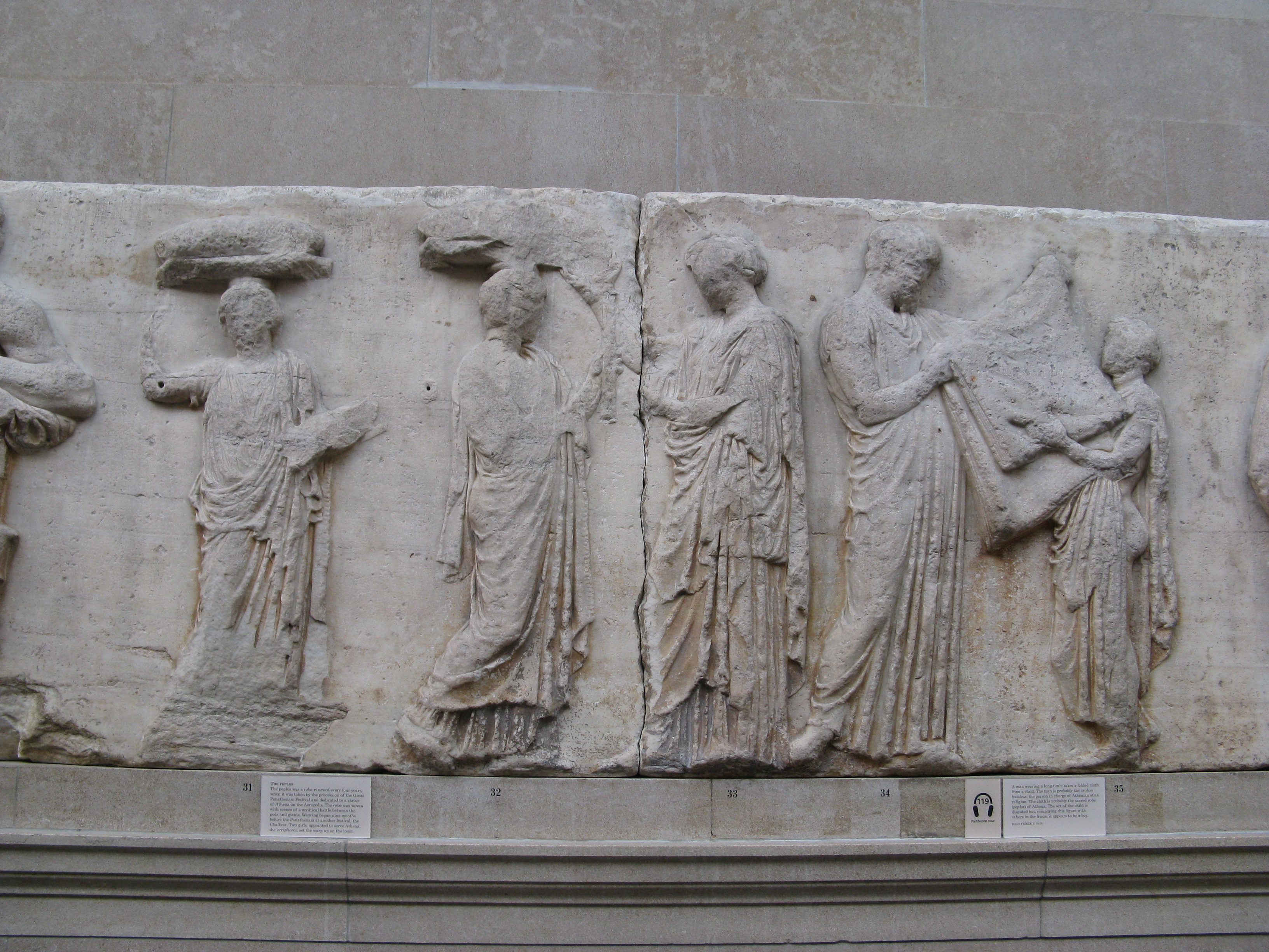 Part of the central section of the east frieze. From left to right: Two girls carrying stools, the priestess of Athena, the Archon Basileus and a child holding the peplos.